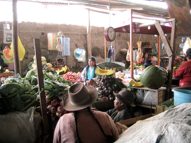 The central market in Ayacucho, Peru, July 2005. Photograph by Andrea Dunlap